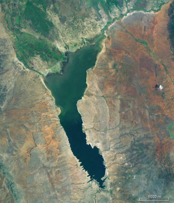 Nyumba_ya_Mungu_Reservoir